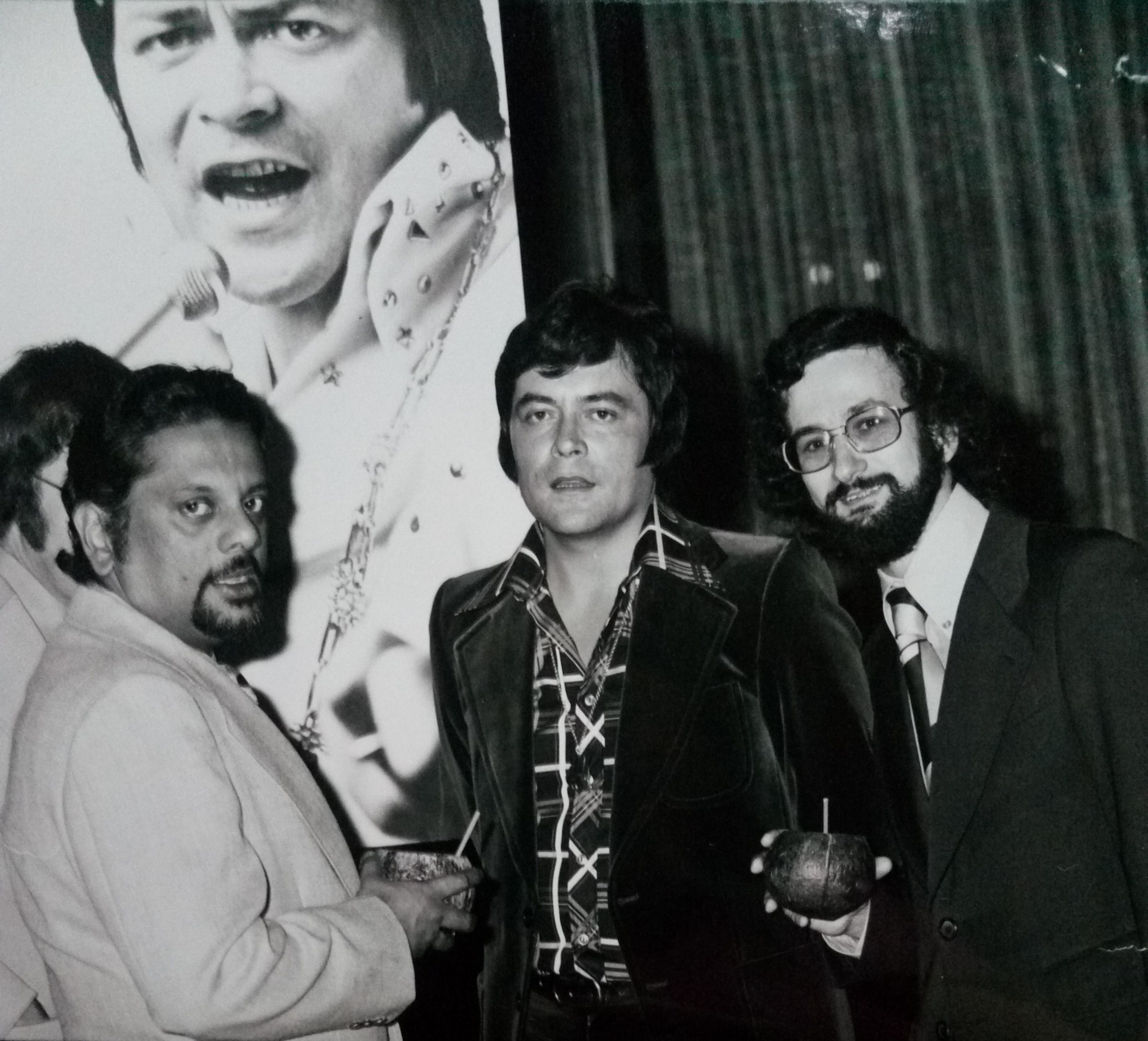 Roel Kruize (Bovema Director), Bhaskar Menon (Chairman of EMI Music Worldwide and Capitol Records), Jack Jersey (artist), Theo Roos (A&R manager, later CEO of Universal Music).